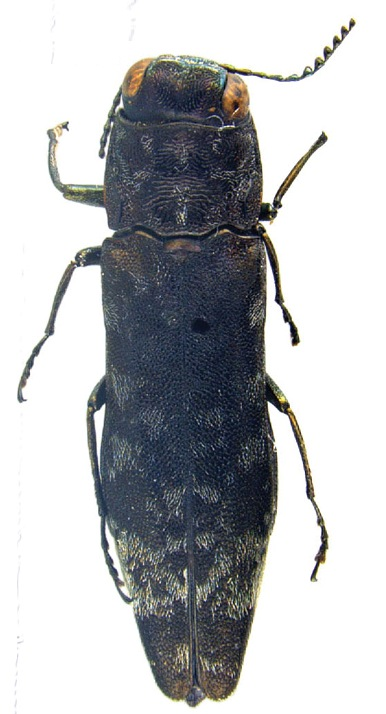 Agrilus mucidus Jendek 2013, holotype.